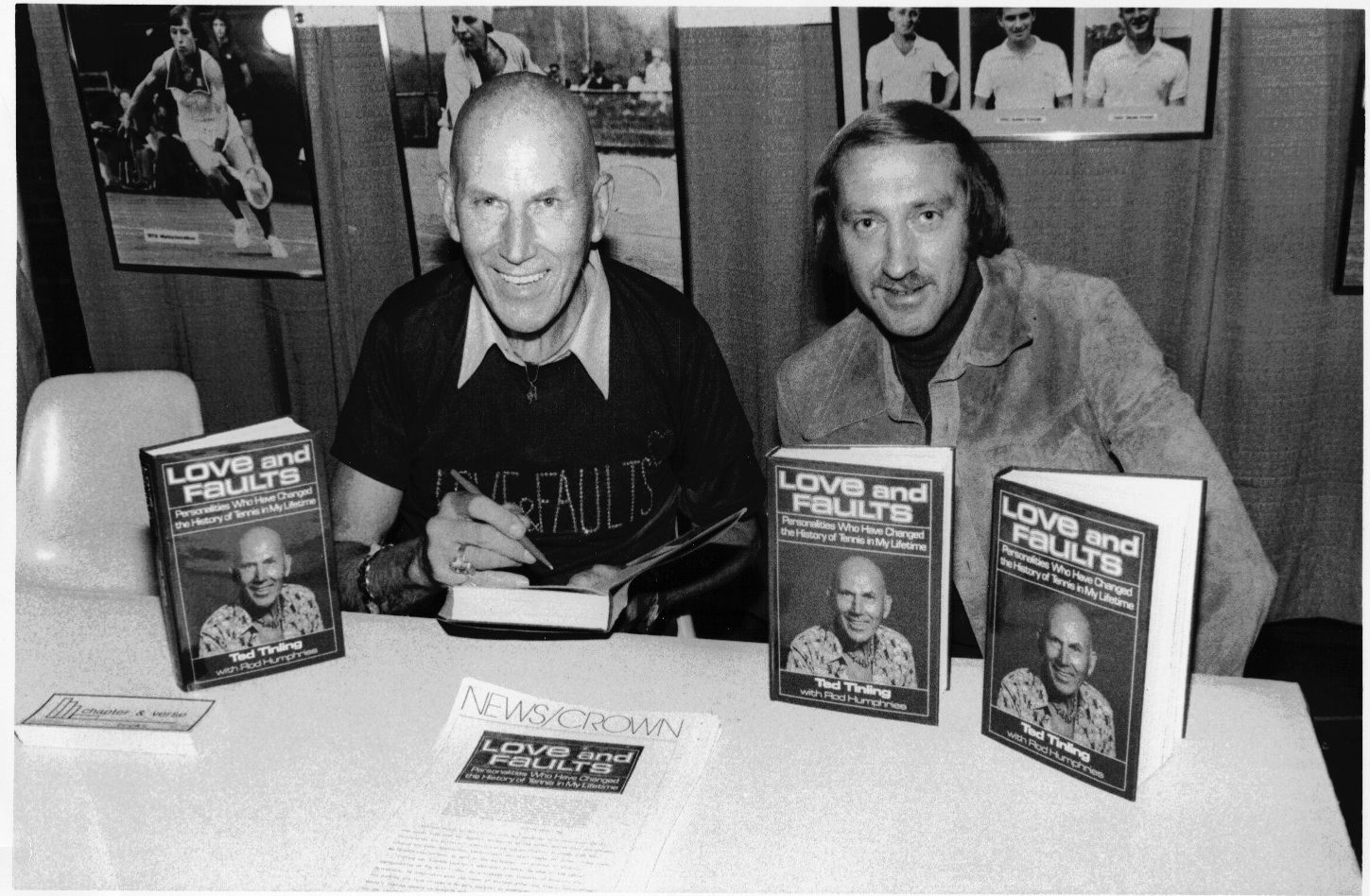 Rod Humphries with Ted Tinling at the Spectrum Stadium in Philadelphia during a US Pro Indoor tennis tournament